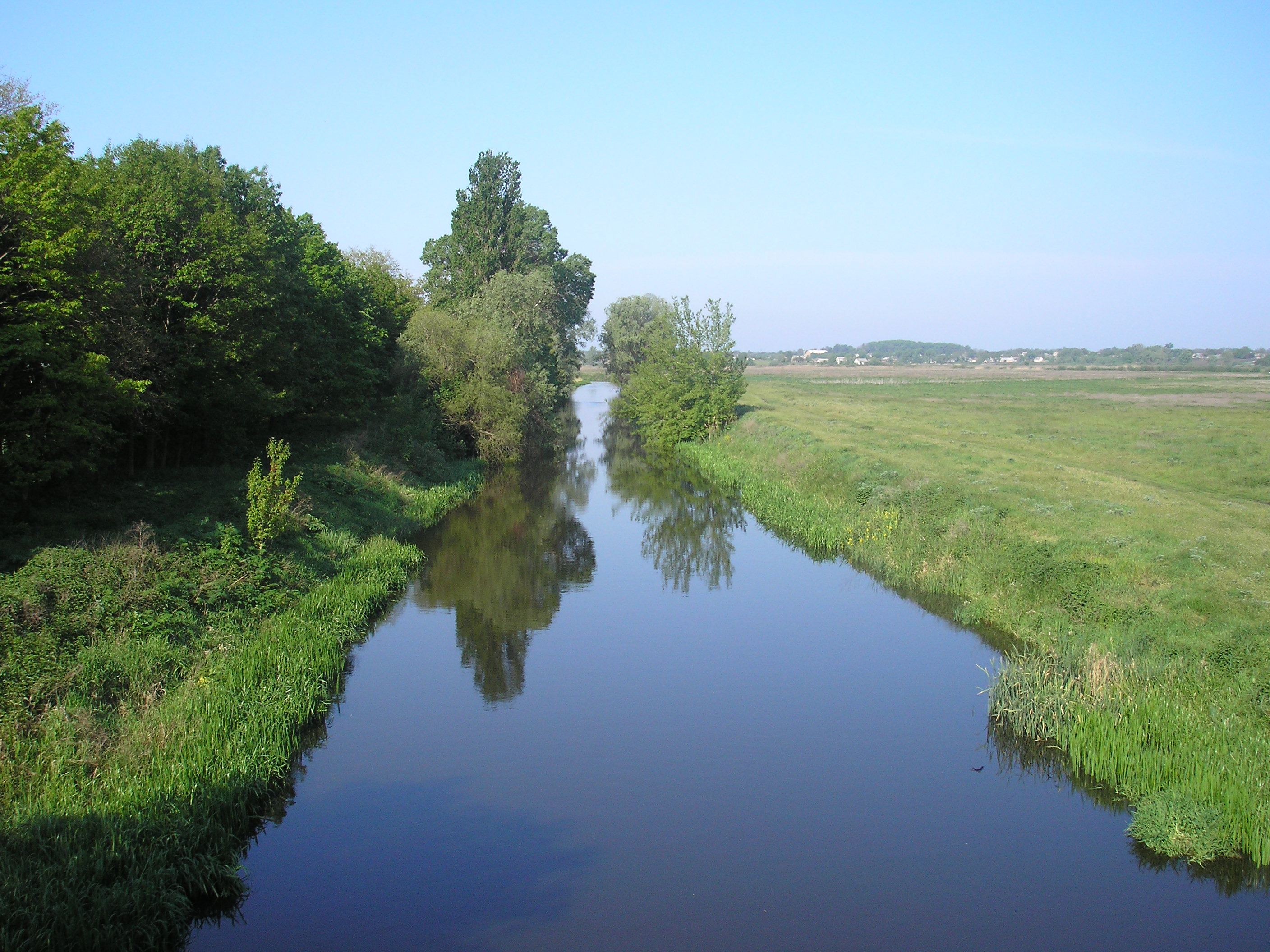 Tjasmin River, tributaries of the Dnieper River, Ukraine, Cherkasy region